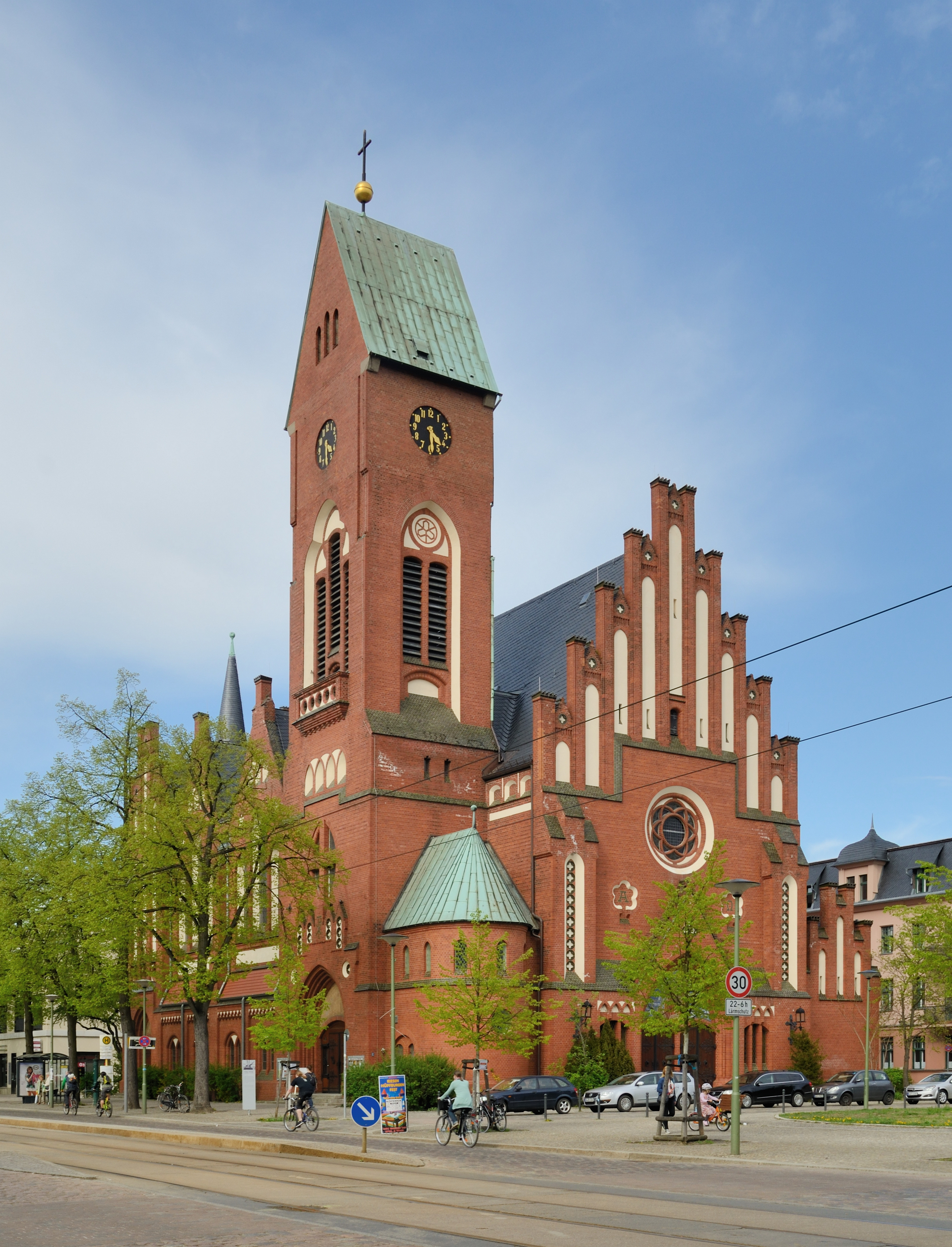 Berlin-Friedrichshagen: Christopherus church